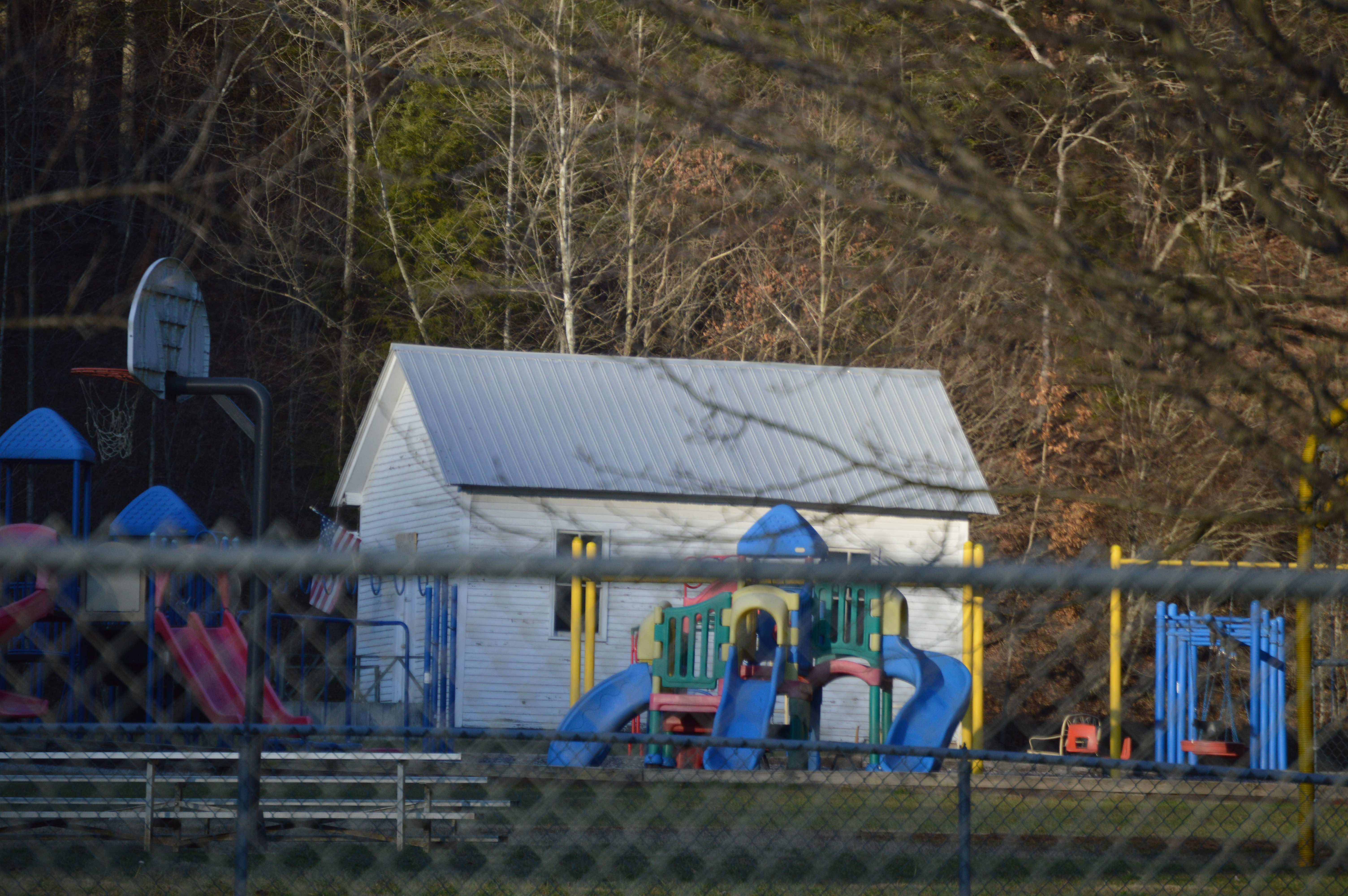 Southern side of the Kelly View School, located on the grounds of Appalachia Elementary School on Old U.S. Route 23, northeast of Appalachia, in Wise County, Virginia, United States. It is listed on the National Register of Historic Places.